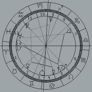 astrological birth chart